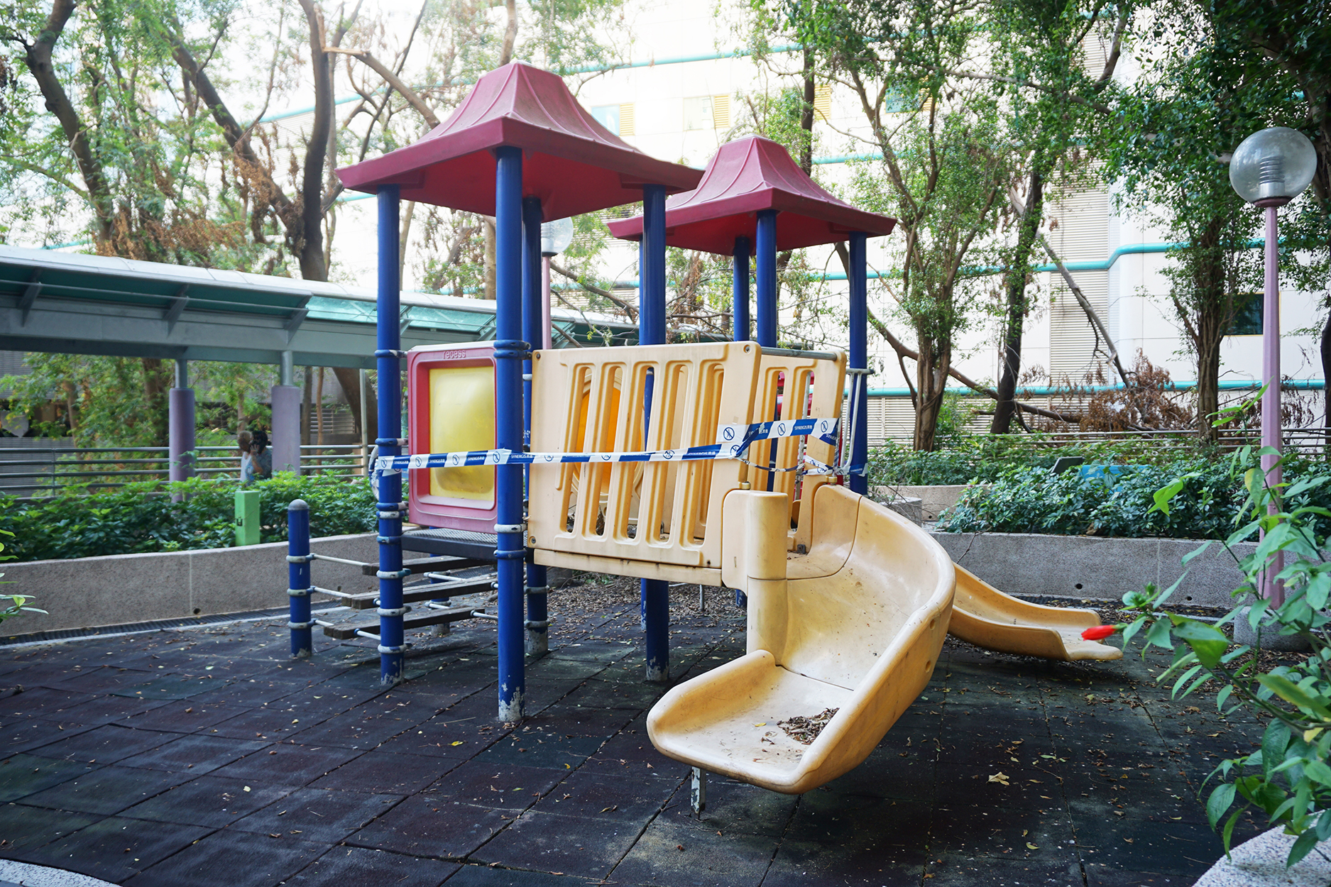 Tsz On Court in Tsz Wan Shan, Hong Kong.